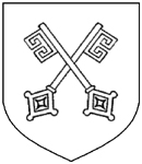 Coat of Arms of Uichteritz